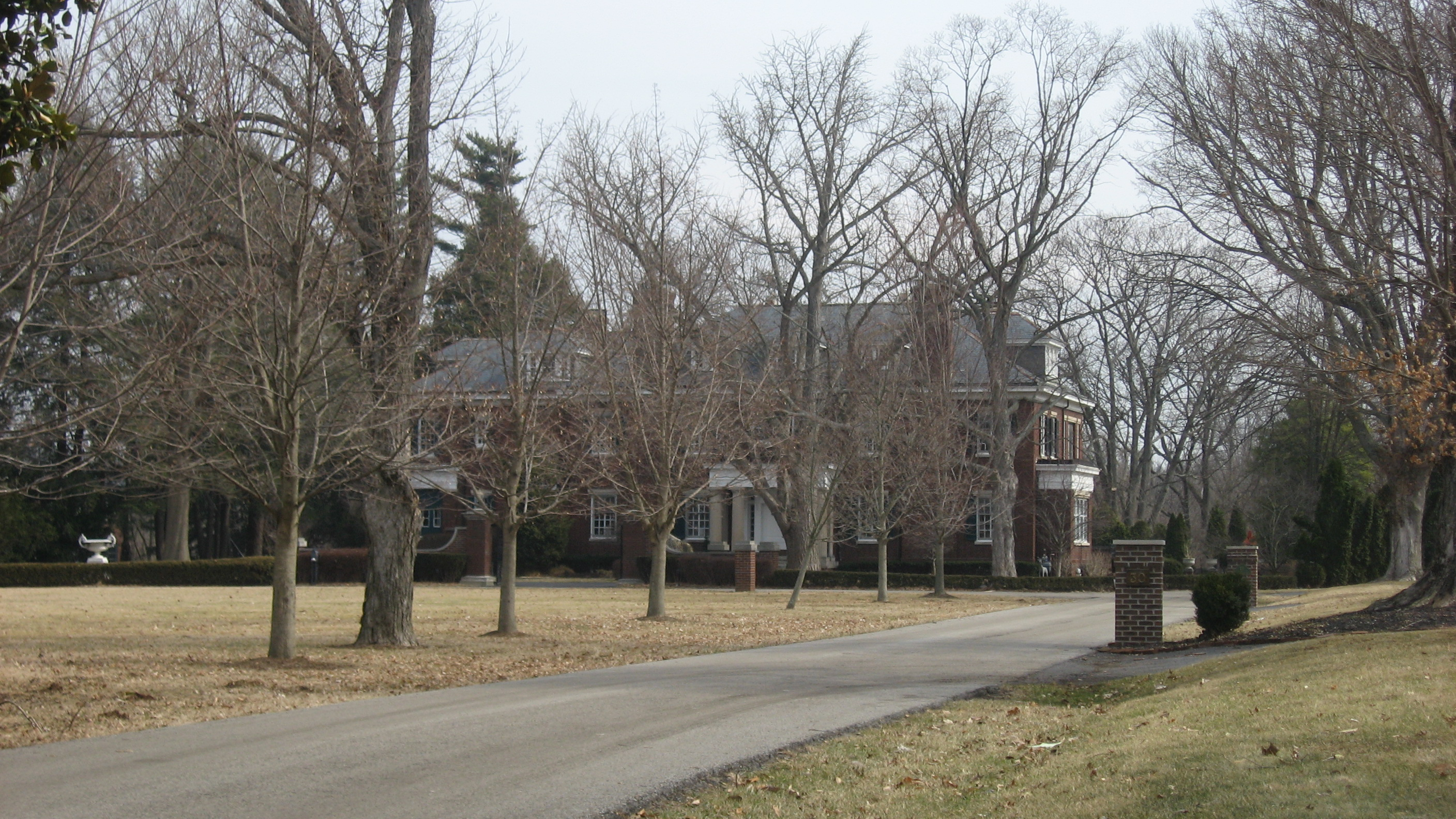 Western side and front of the Midlands estate, located at 25 Poplar Hill Road in Indian Hills, Kentucky, United States. Built in 1913, it is listed on the National Register of Historic Places.